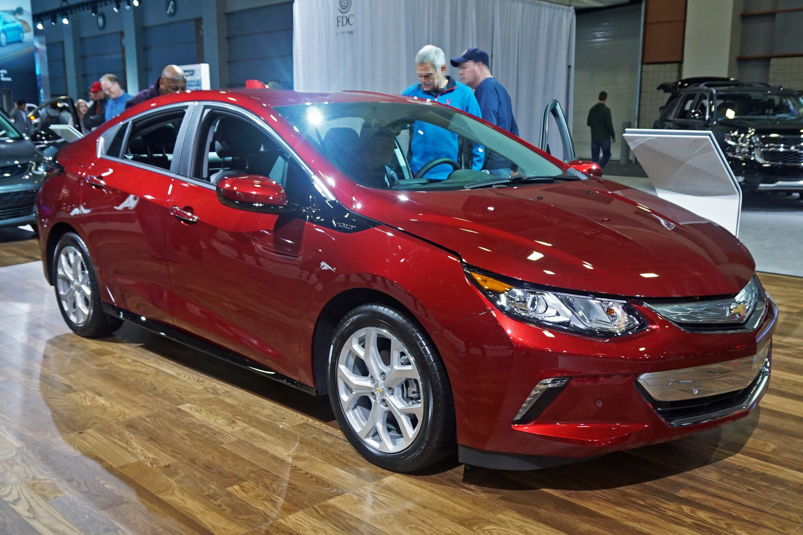 2017 Chevrolet Volt second generation at the 2017 Washington Auto Show, DC, USA.